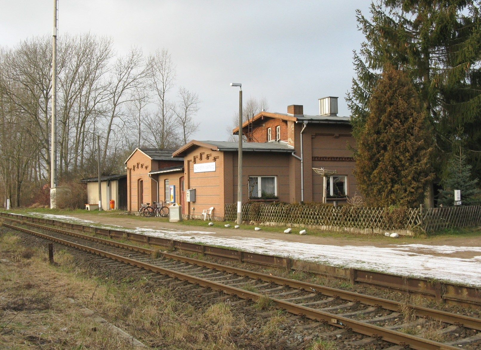 Schwerin-Warnitz train station, Mecklenburg-Vorpommern, Germany